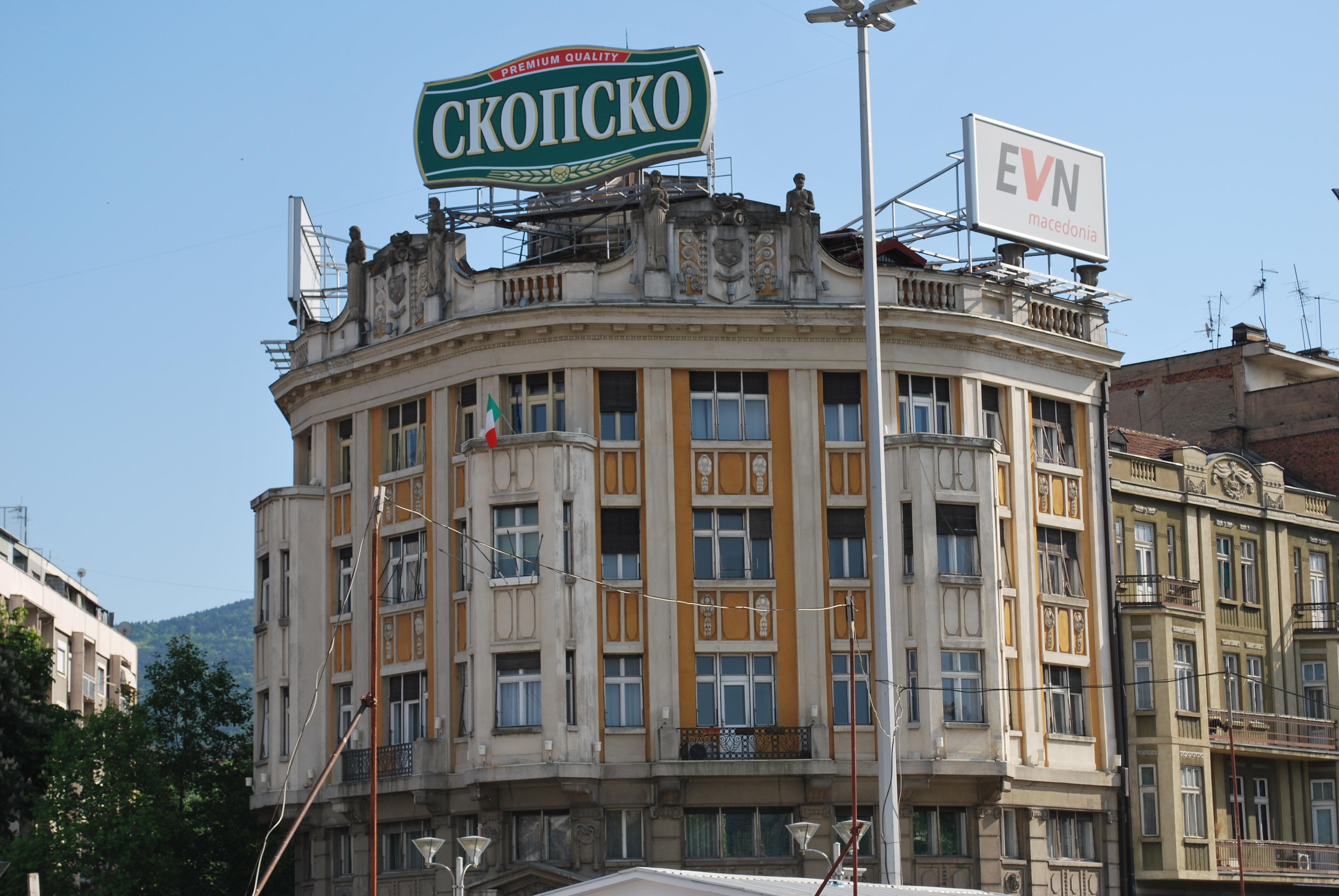 Skopje, Macedonia